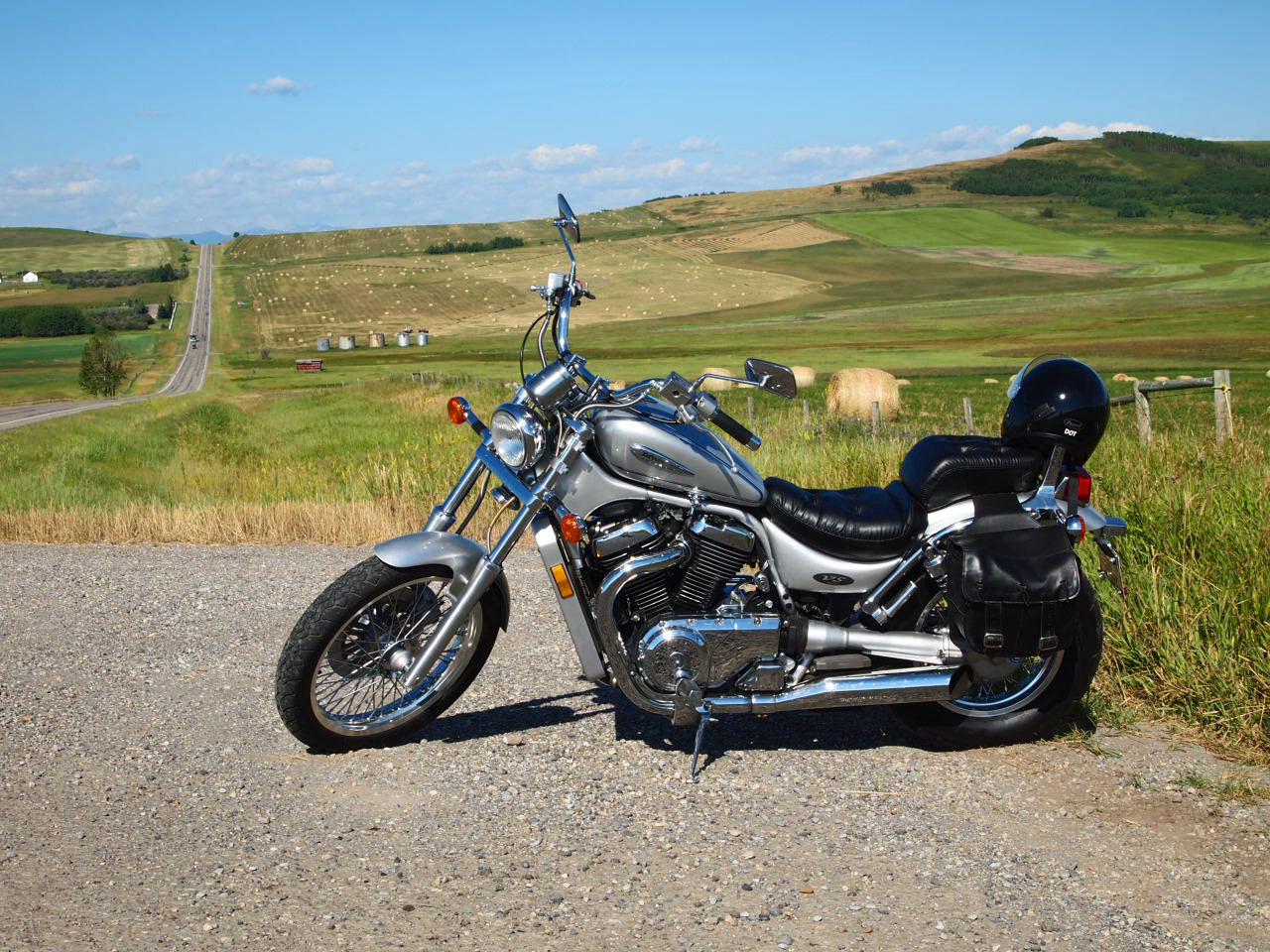 2003 Suzuki VS800 Intruder near Millarville, Alberta, Canada